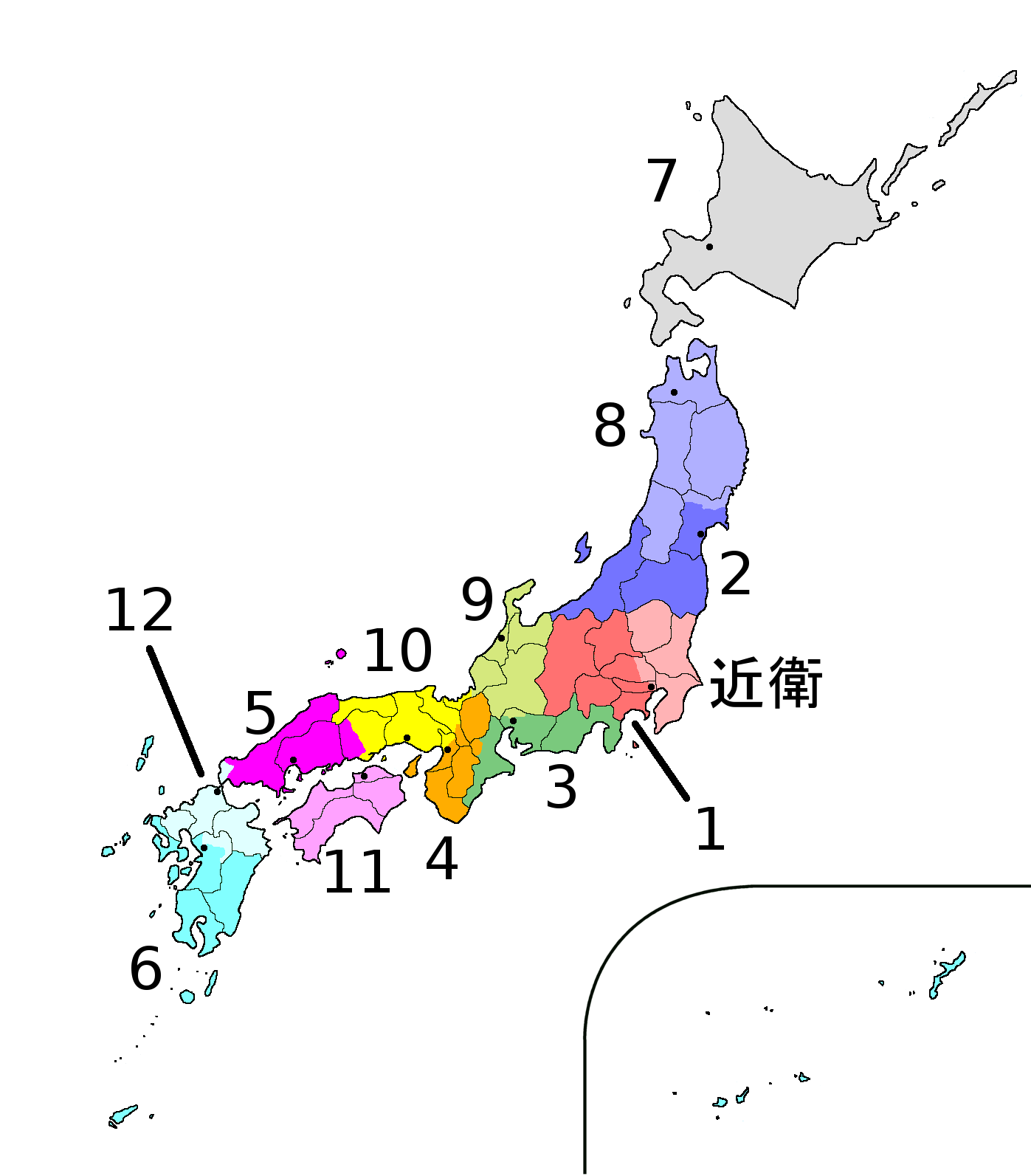 12 Divisional Regions of Japanese Army from April 1 of 1896 untill March 31 of 1899. Derived from File:Japan template large.png.